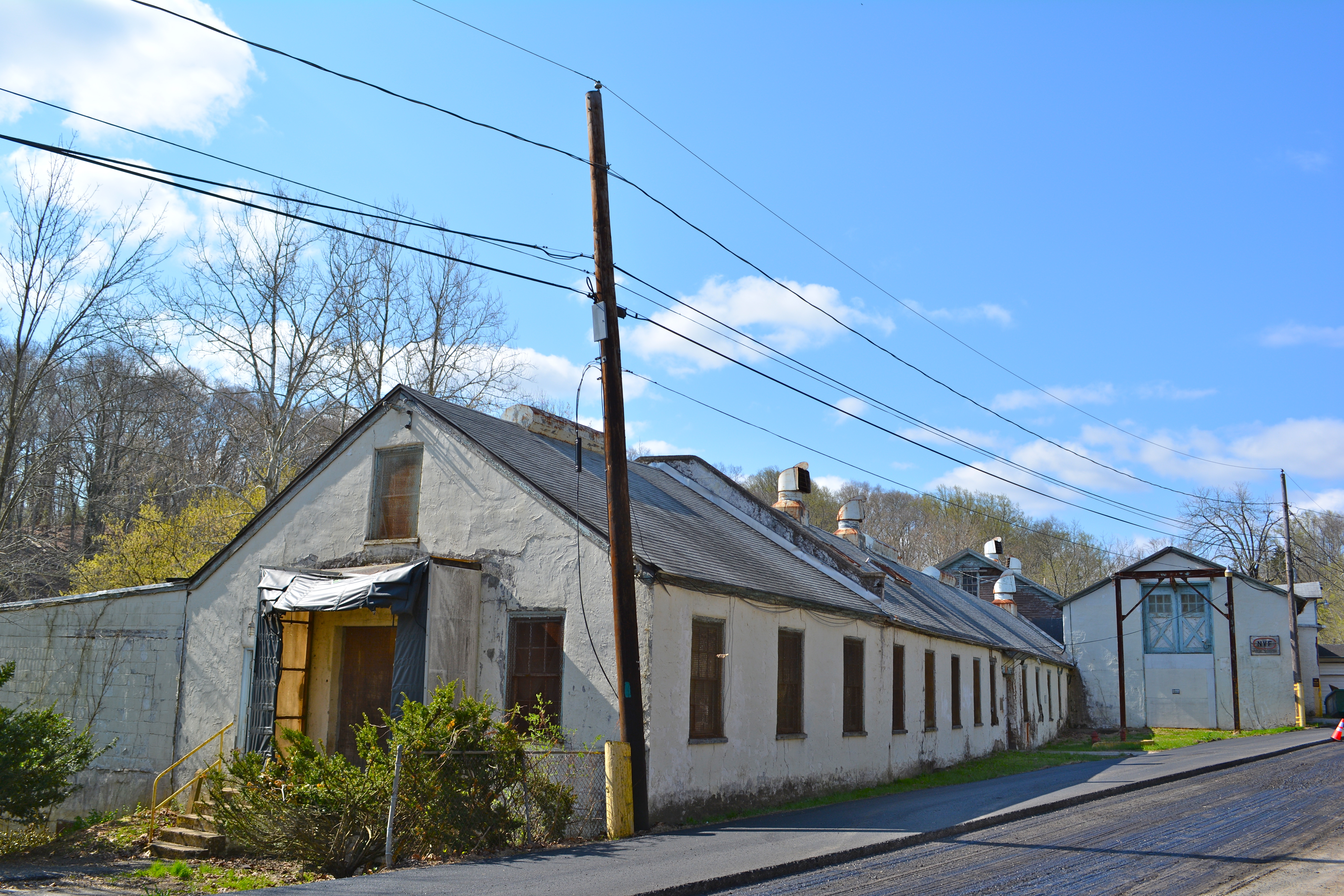 Building in Auburn Mills Historic District, added to the NRHP on January 22, 1980. Located west of Yorklyn, Delaware on Delaware Route 82 and Road 253